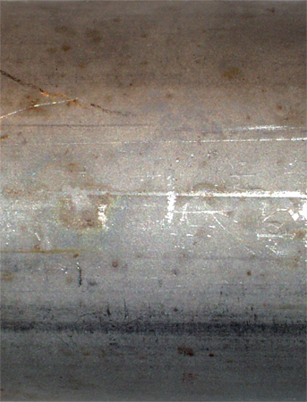 Photographer: William Rafti of the William Rafti Institute